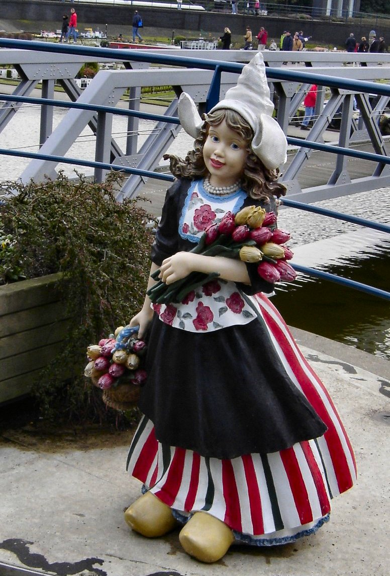 Stereotype of Dutch girl, or Holland, tulips and wooden shoes, Madurodam, February 19, 2006